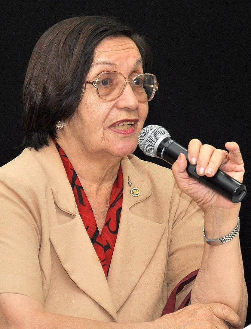 Paraguayan writter Margarita Prieto Yegros